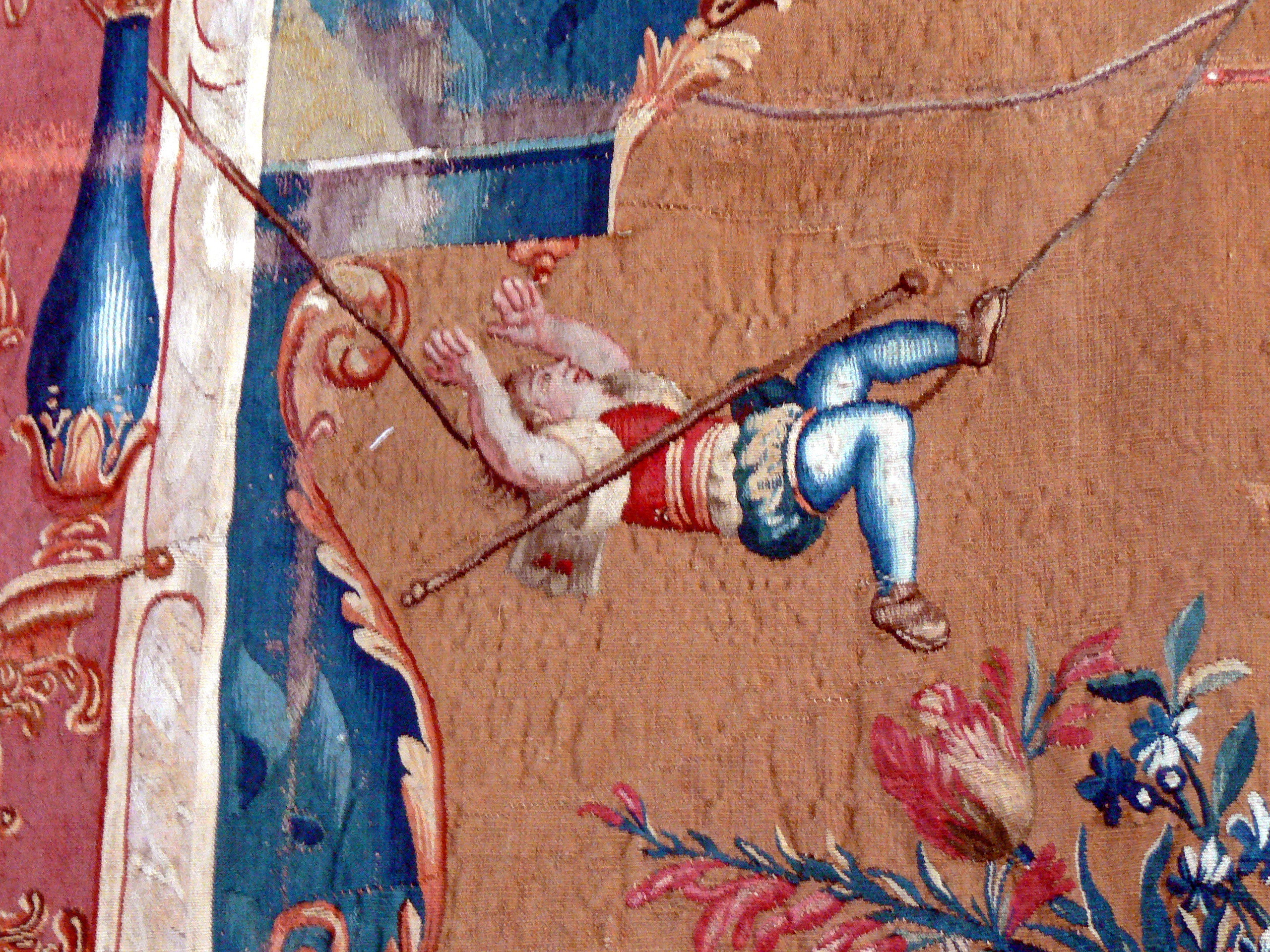 Kronborg castle. Gobelin ( 1700 ) from Beauvais made by Jean Behagle. Detail showing an acrobat falling from a tight rope